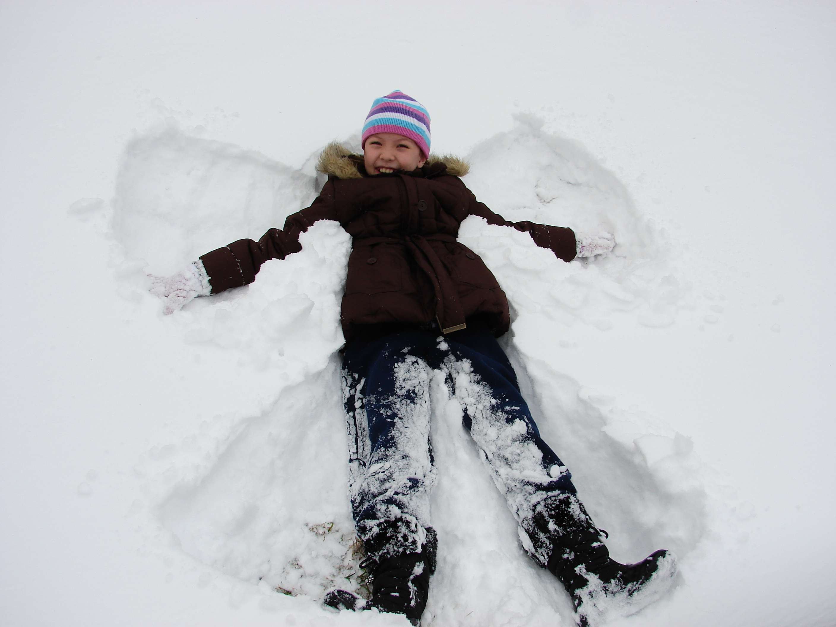 Child making a snow angel (North Dallas, Texas).